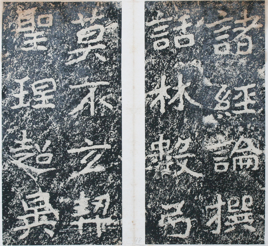 Album of Rubbing of Cheng wen kung pei (Memorial to Cheng Yu-Lin), , Regular script, Original was engraved on the Criff , Wen po mountain, Shangtung, China in ACE 511.